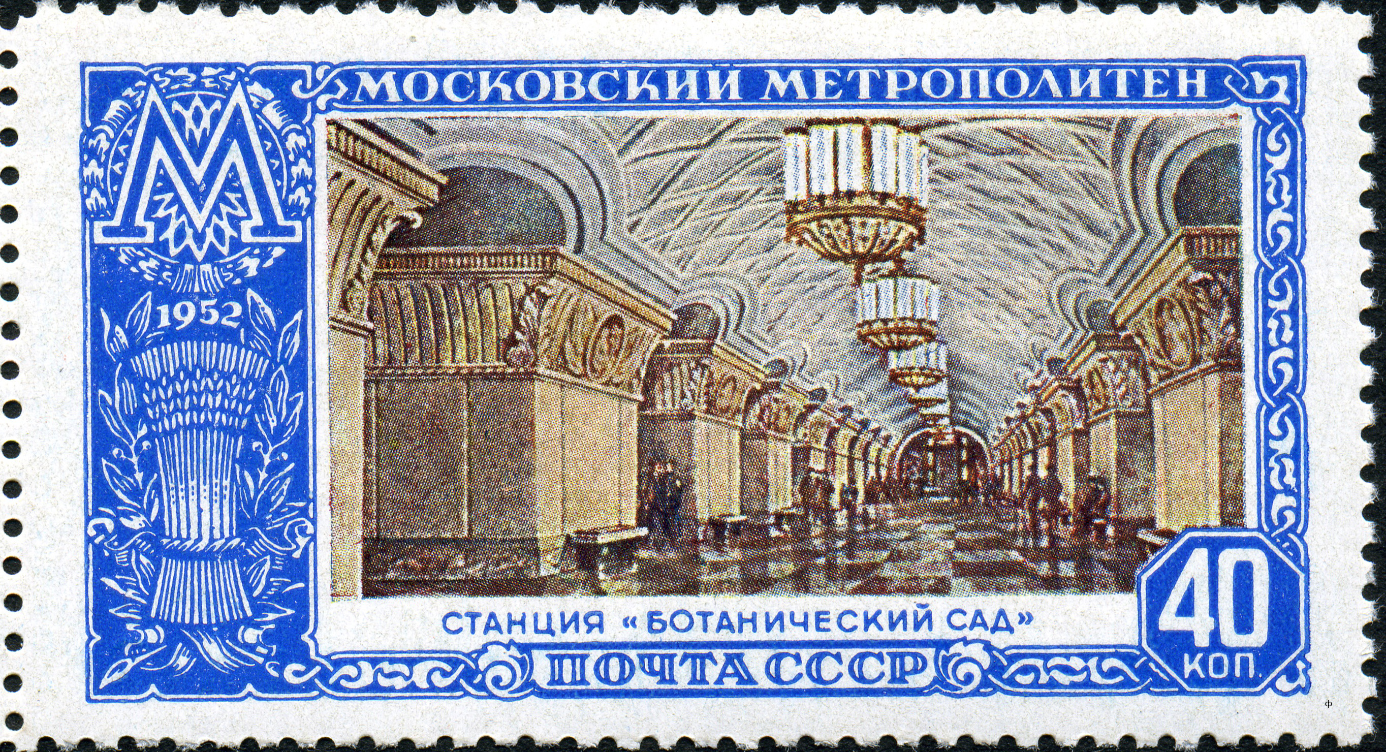 Stamp of the Soviet Union, Botanichesky Sad (Moscow Metro station), 1952, CPA #1711.